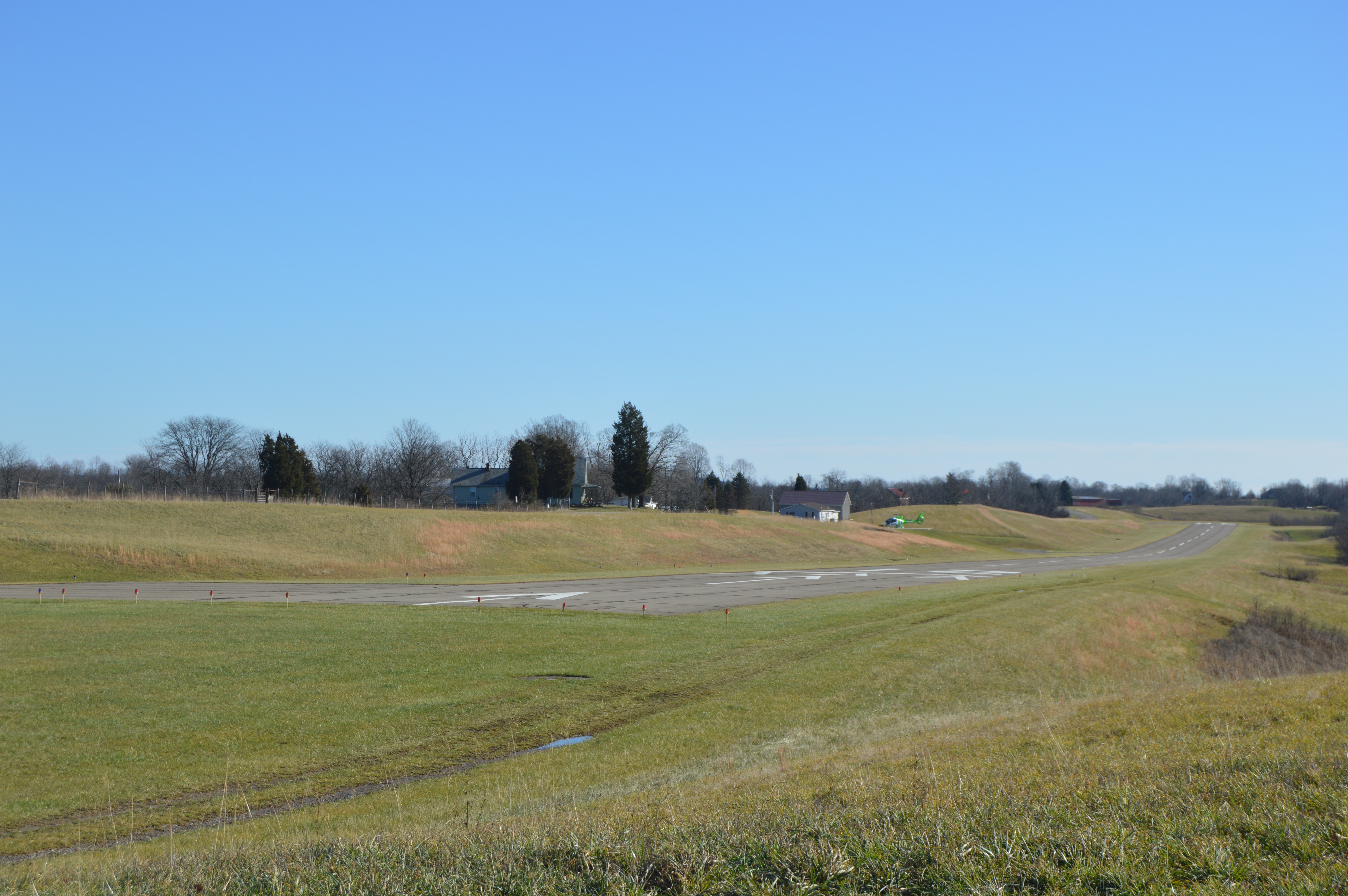 Overview from Airport Road of the western end of Runway 12 at the Morgan County Airport in Meigsville Township, Morgan County, Ohio, United States.